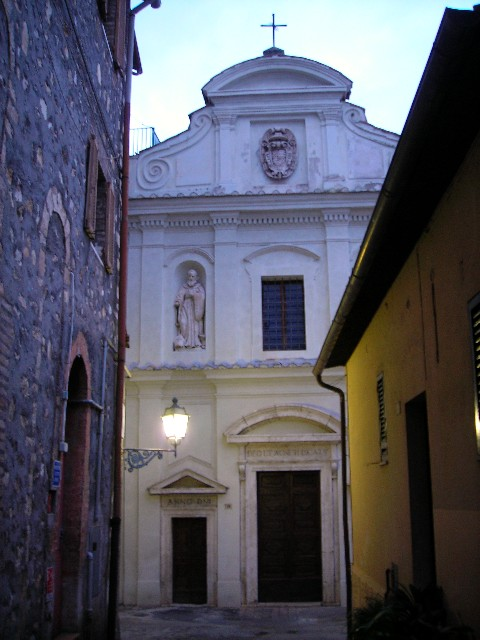 church of Santa Maria Assunta in Cesi, Terni, Umbria, Italy